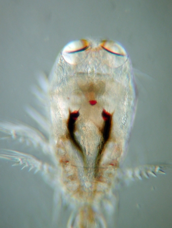 Corycaeus sp., a copepod with huge eyes, frontal lenses and pigmented eye stalks. Width of lenses 200 µm.